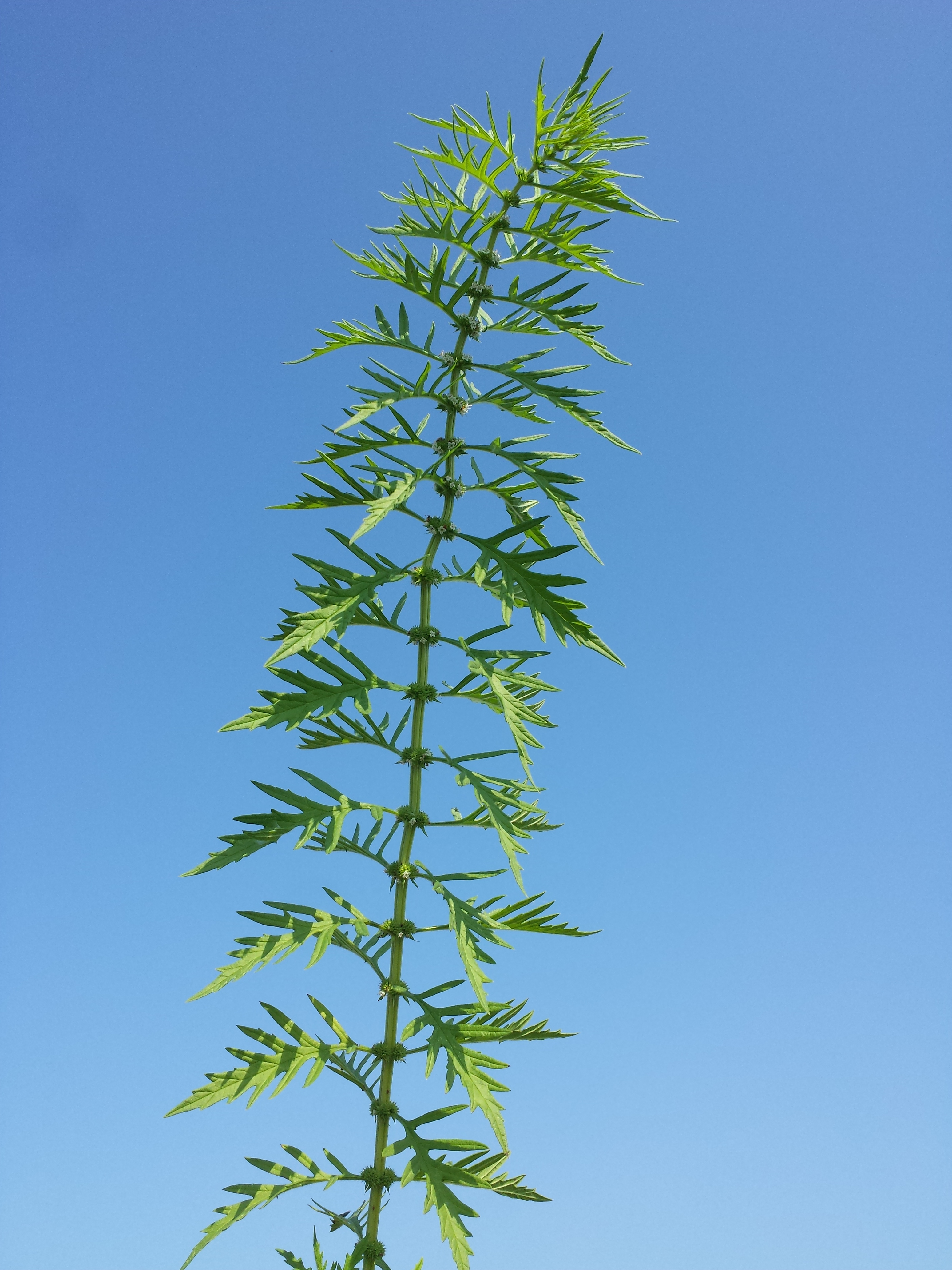 Habitus Taxonym: Lycopus exaltatus ss Fischer et al. EfÖLS 2008 ISBN 978-3-85474-187-9 Location: pond near Michelstetten, district Mistelbach, Lower Austria - ca. 250 m a.s.l. Habitat: shore of a pond